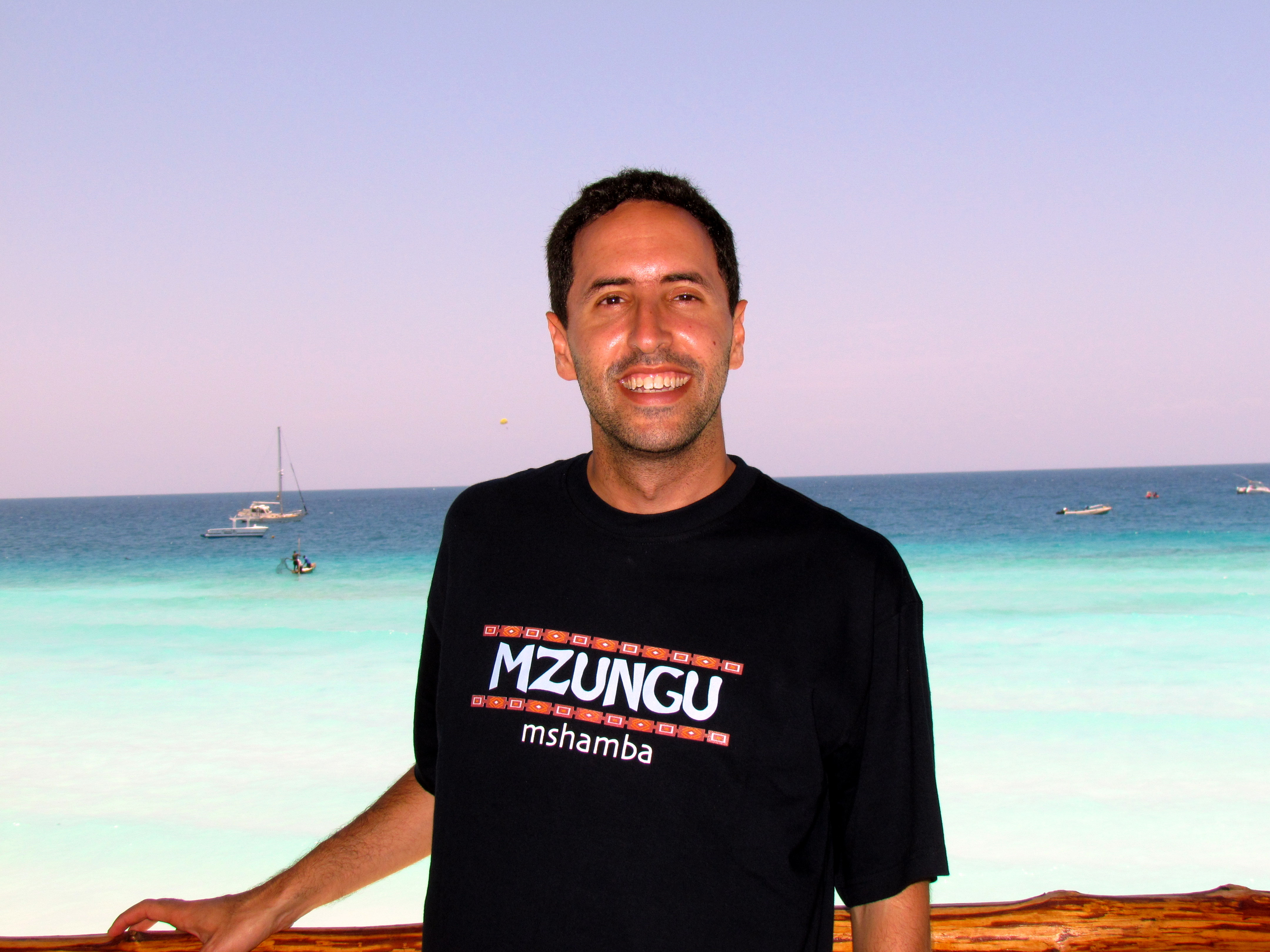 A trip to Zanzibar's Unguja island in February 2011 (cc) David Berkowitz